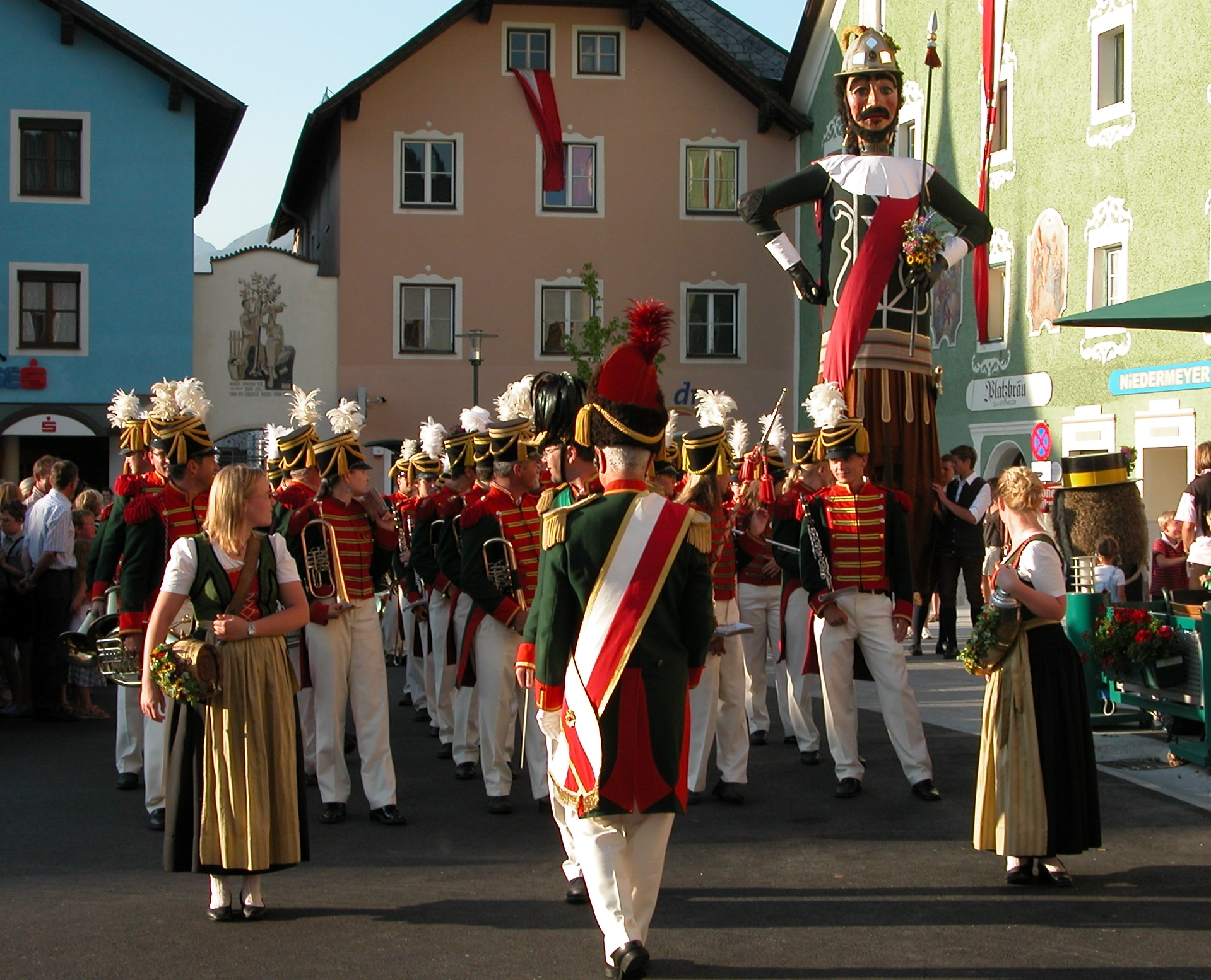 Giant Samson from Tamsweg